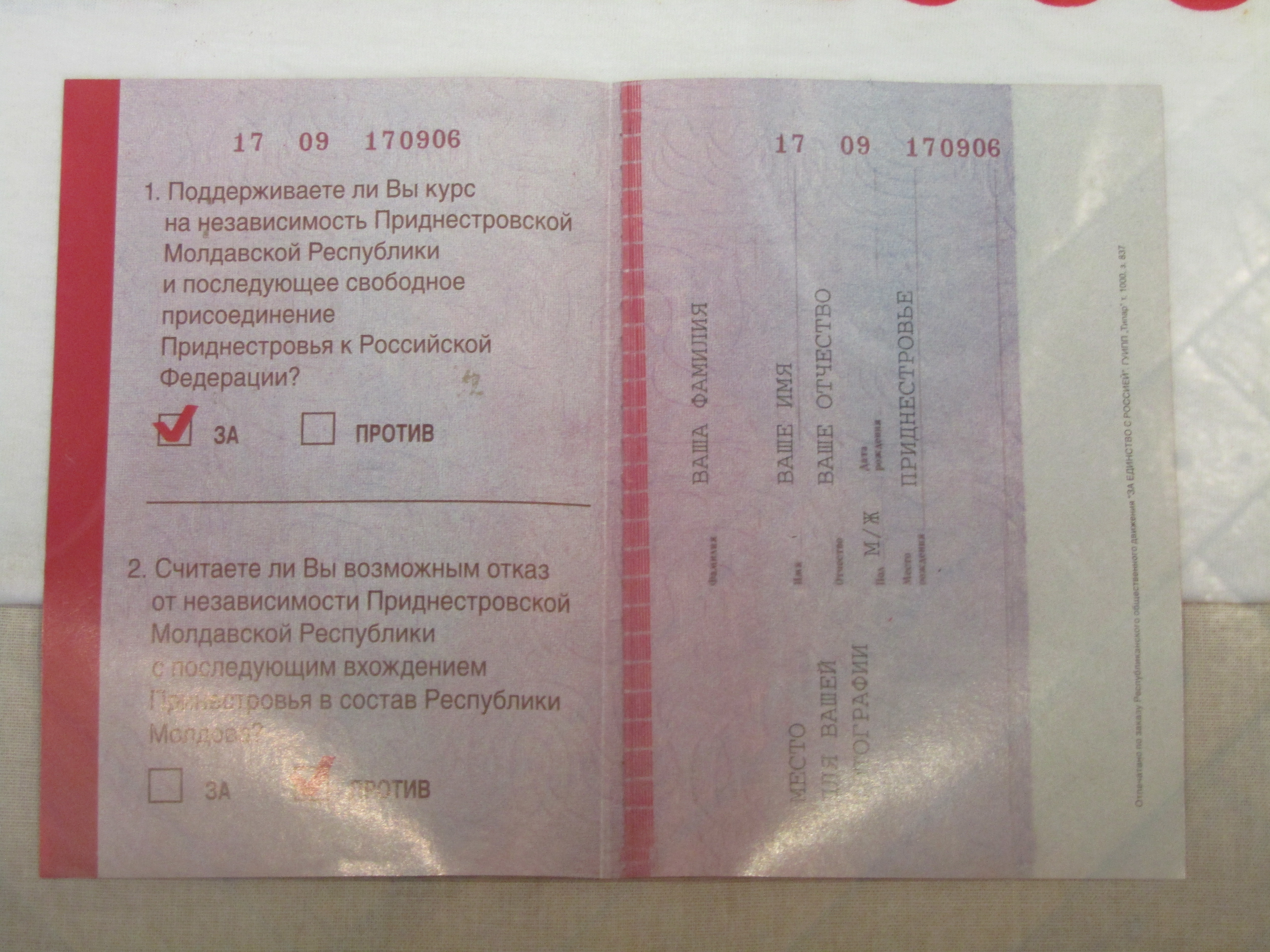 Voting card from 2006 Transnistrian independence referendum as displayed in United Museum of Tiraspol (тираспольский объединённый музей).